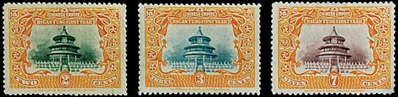 puyi_stamp 宣統紀念郵票